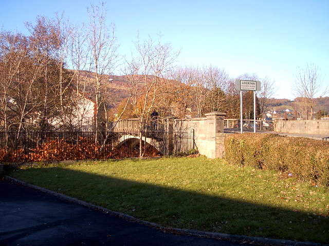 South entrance to Aberfan. The bridge over the river Taff marks the boundary between Merthyr Vale in the foreground and Aberfan across the river